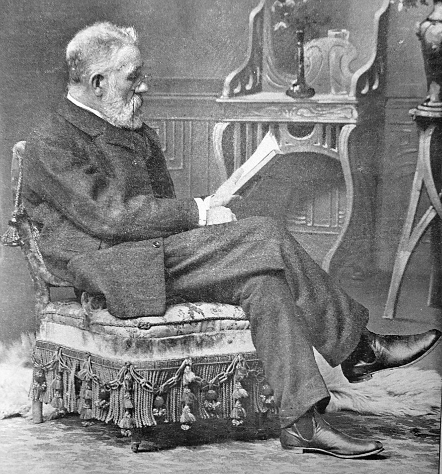 Czech writer and poet Svatopluk Čech.